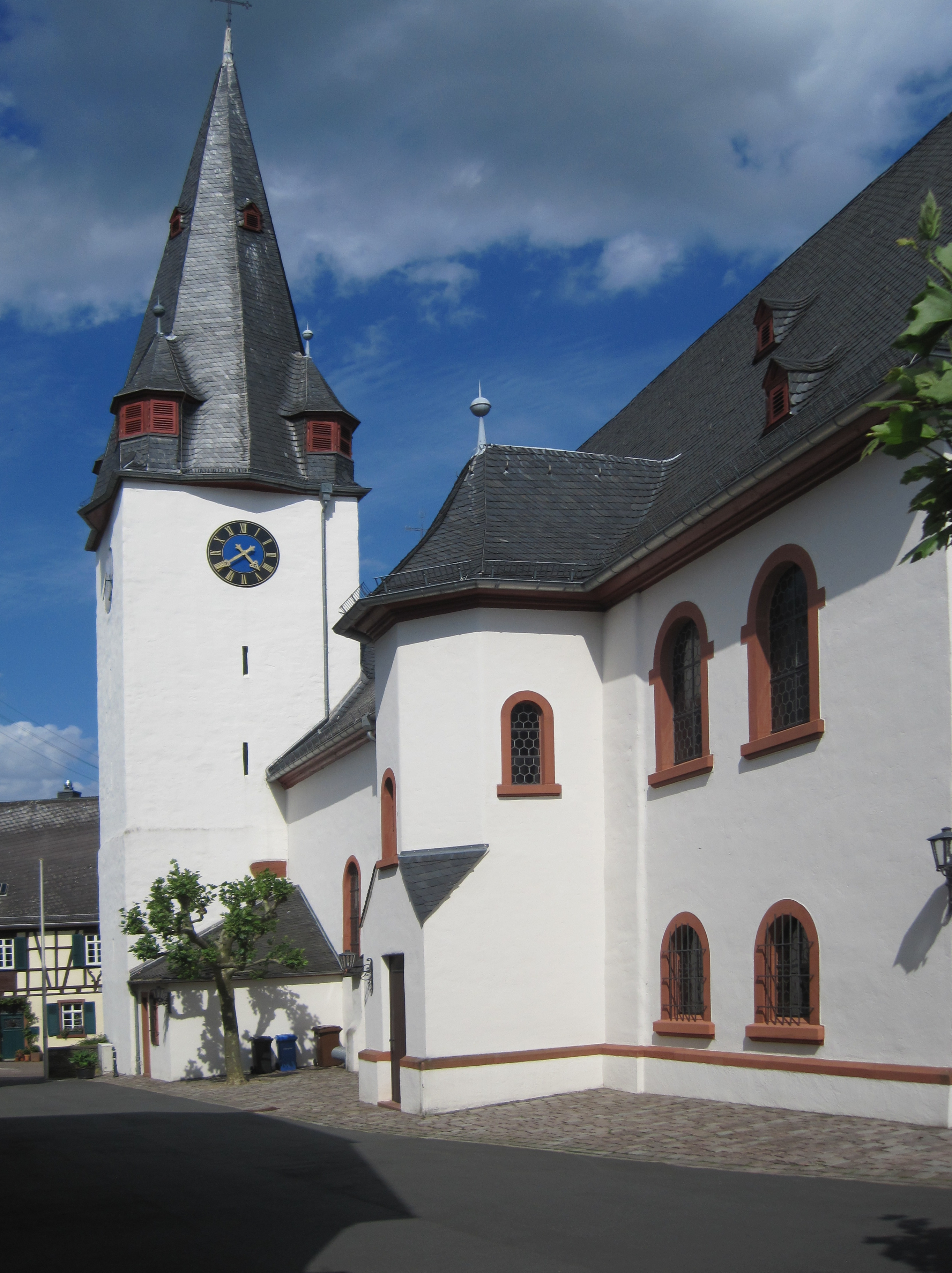 This is the photograph of an architectural monument. It is part of the list of cultural monuments of Hessen, no. 0